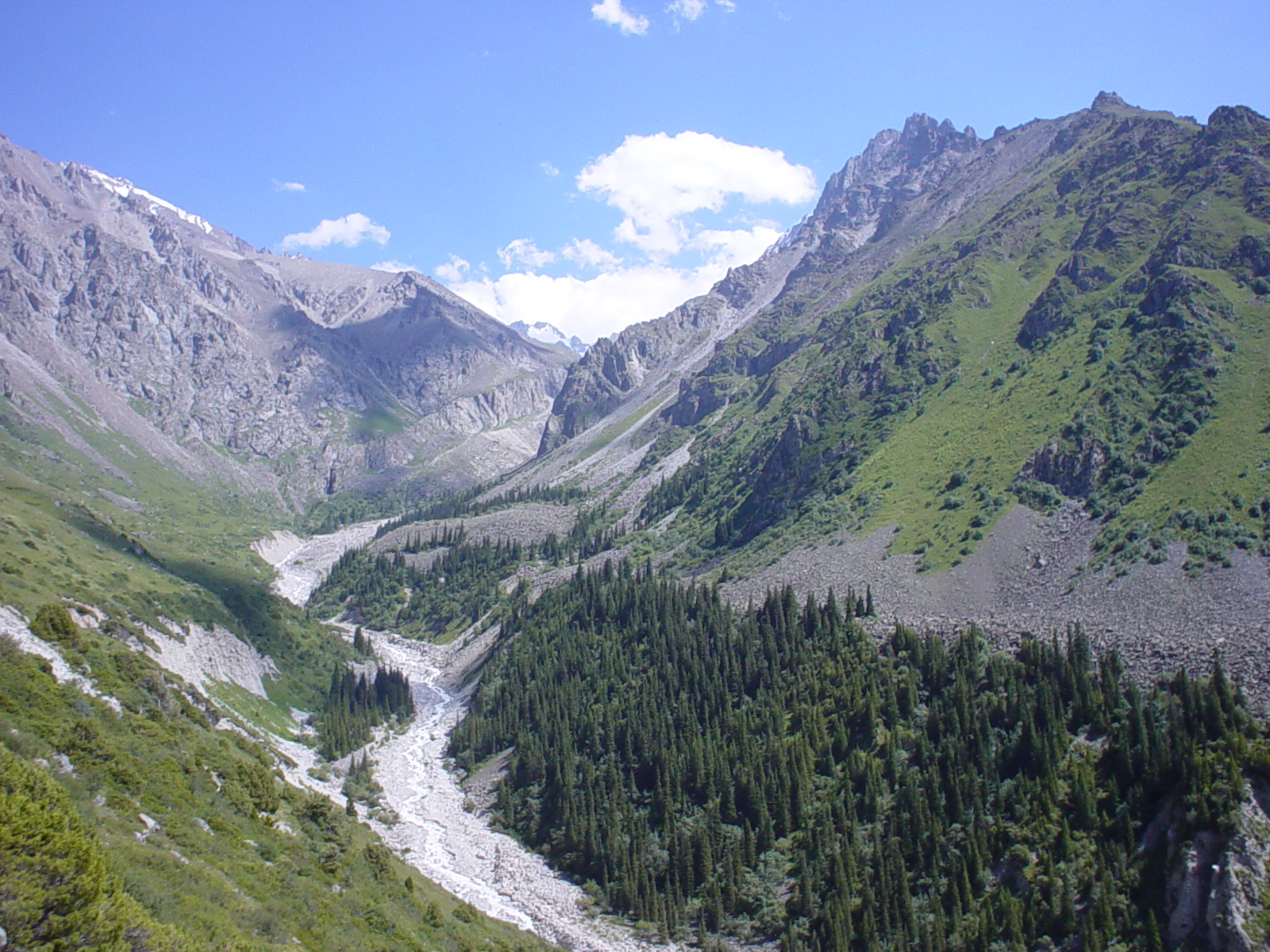 Ala archa By Garth Willis